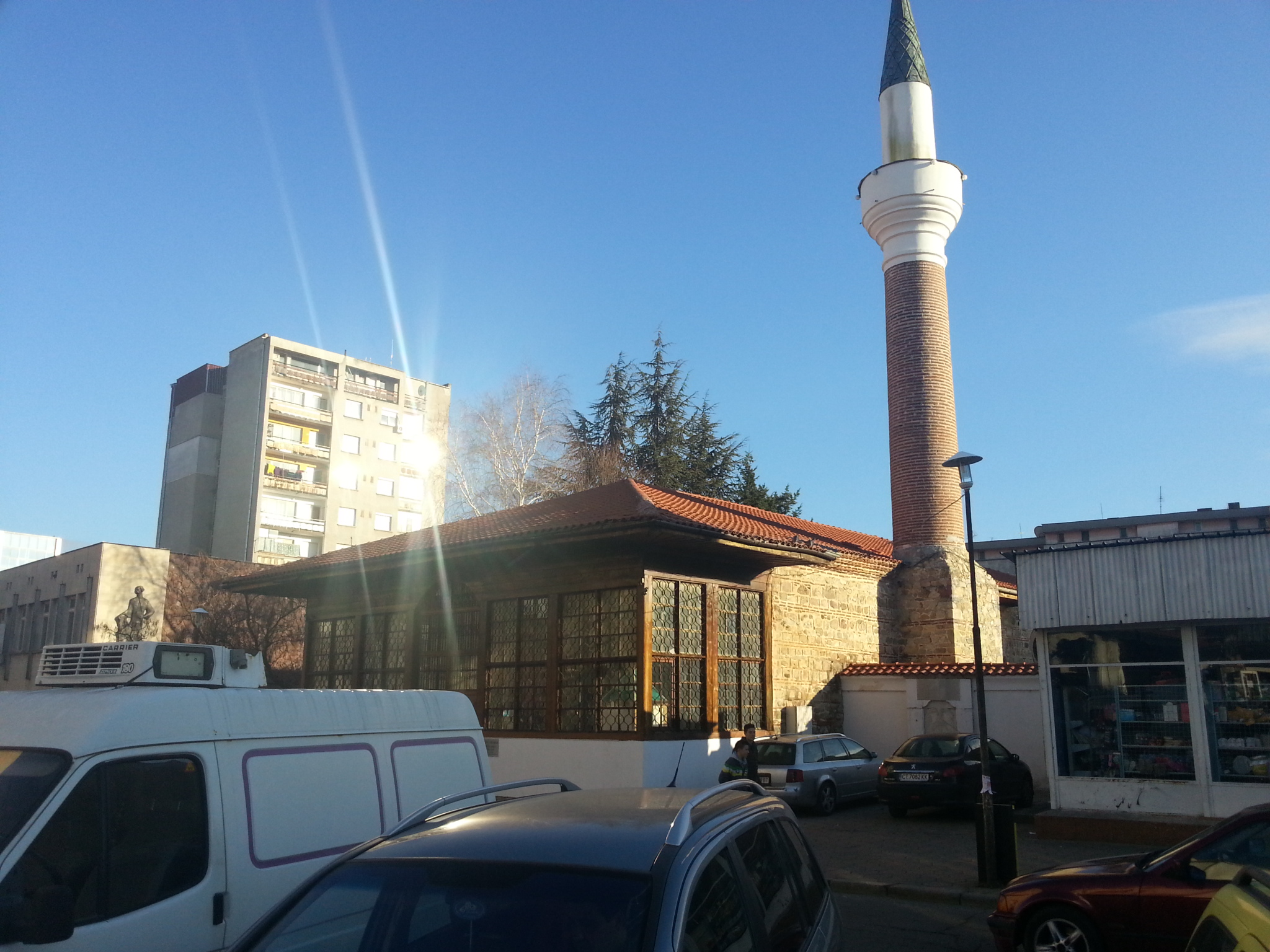 The old mosque in Kazanlak, Bulgaria. Originally built 1394-1412.